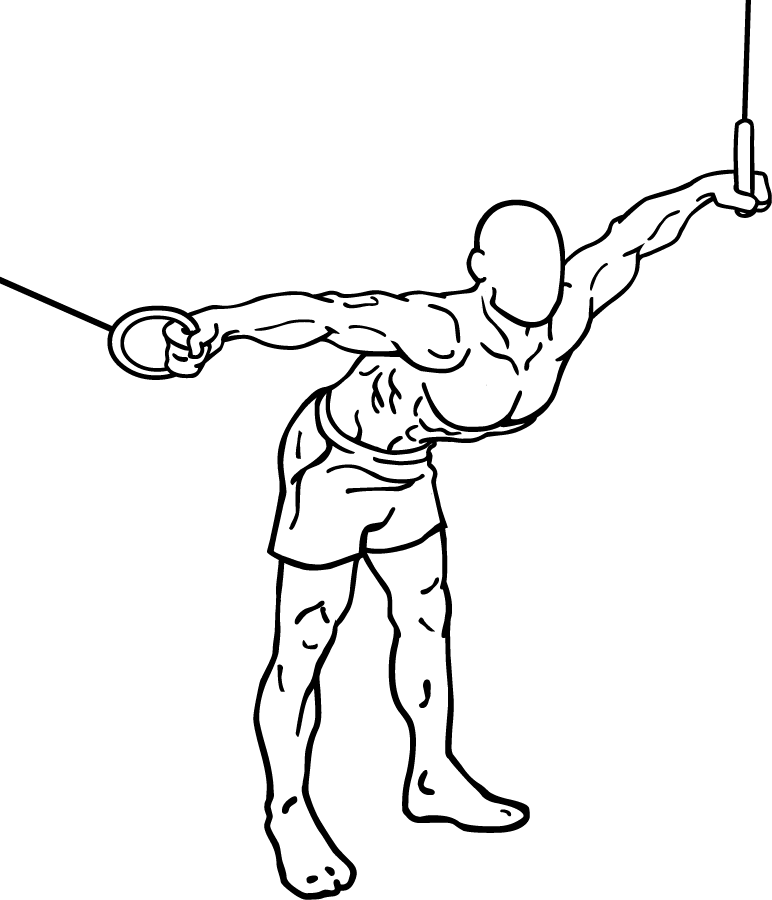 an exercise of chest